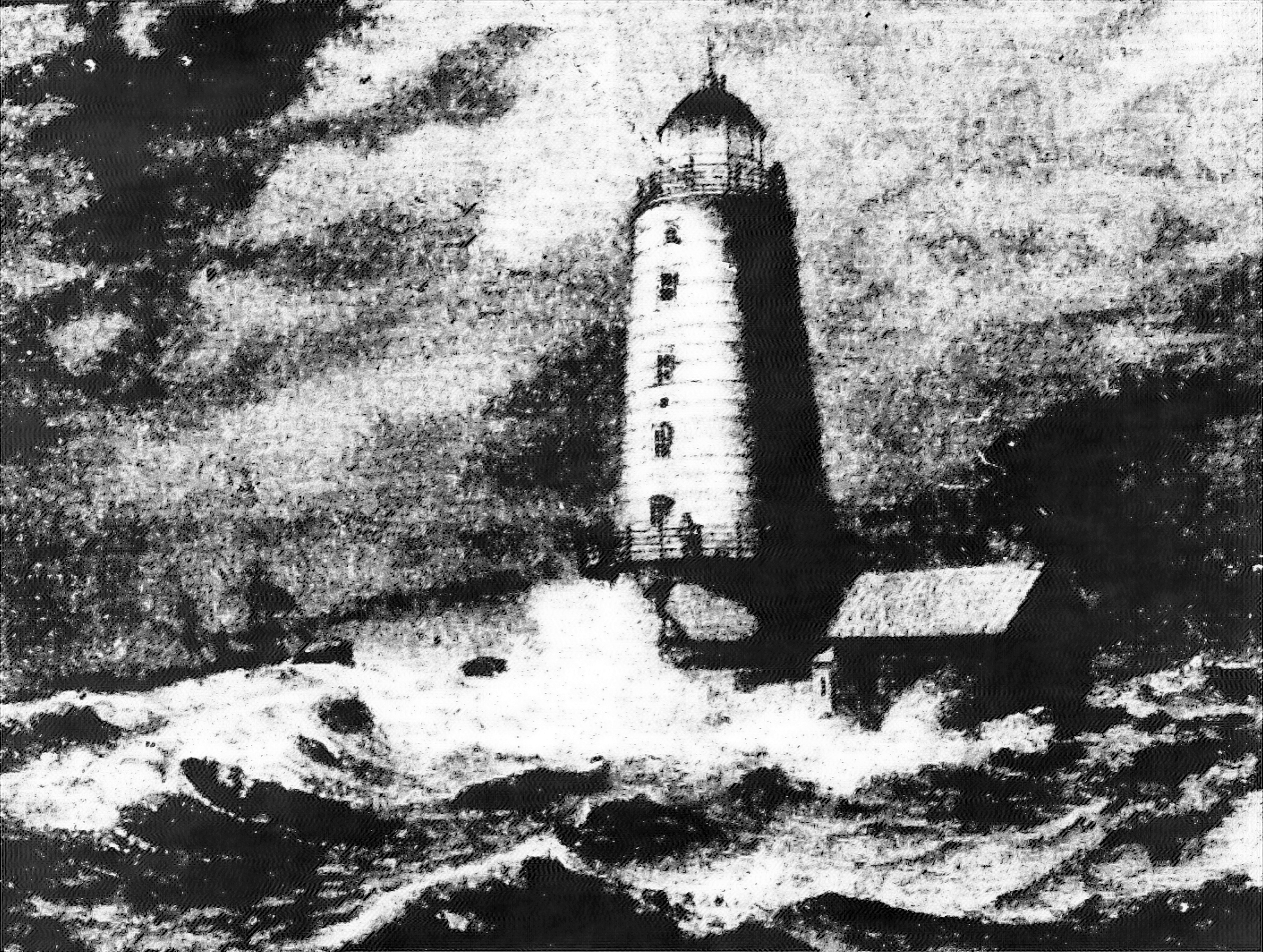 The lighthouse Bogskär as seen by an artist in the 19'th century